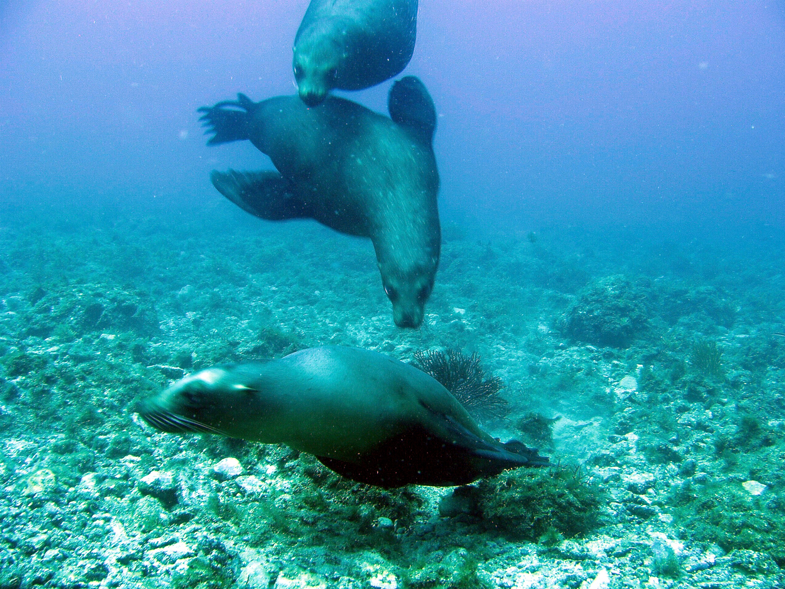 San Pedro Nolasco September 3, 2011